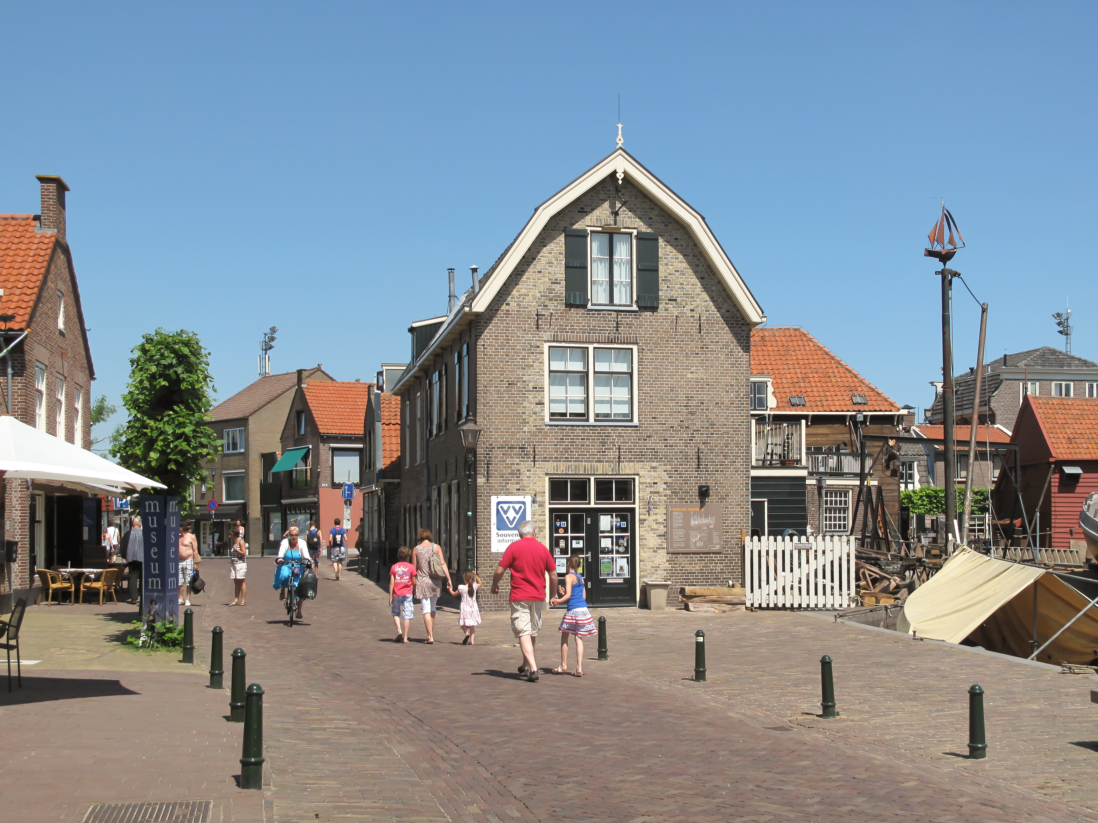 Spakenburg, tourist information office building